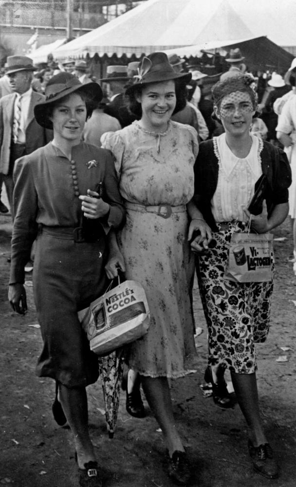 Three young women at the Townsville Show, 1941. The women are carrying showbags from Nestle Cocoa and Vi. Lactogen.